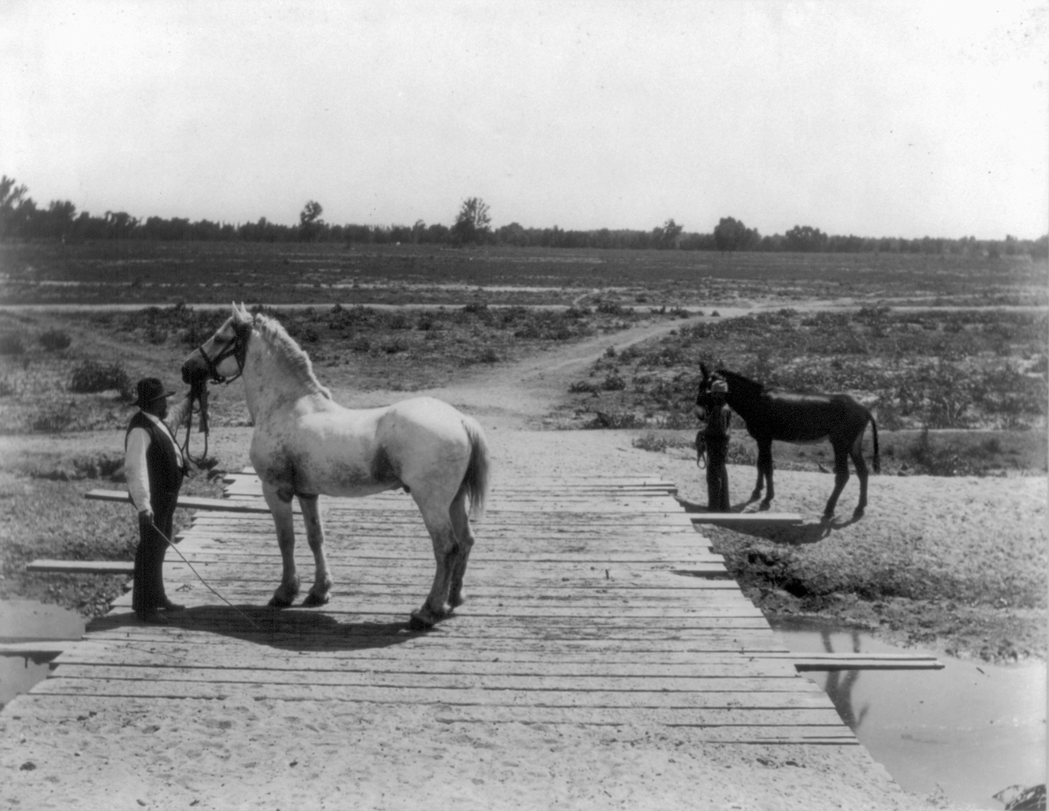 "Compromise" - a Percheron mare, standing on bridge spanning McCord canal in Kern County, California.